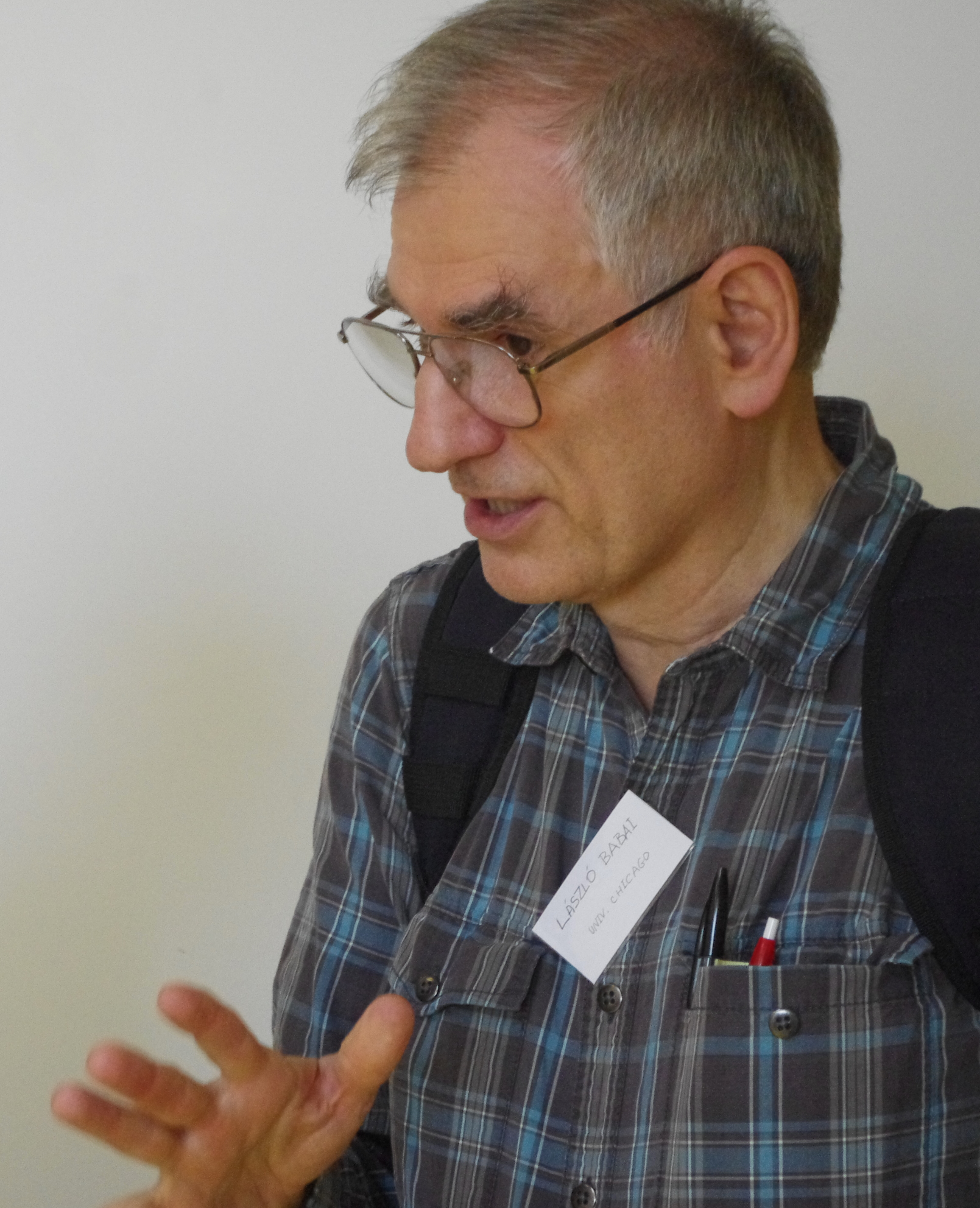 László Babai on the conference "Combinatorics, Algebra and More" in celebration of Peter Cameron in London, Queen Mary University (here in dialogue with Peter Neumann, cropped off)